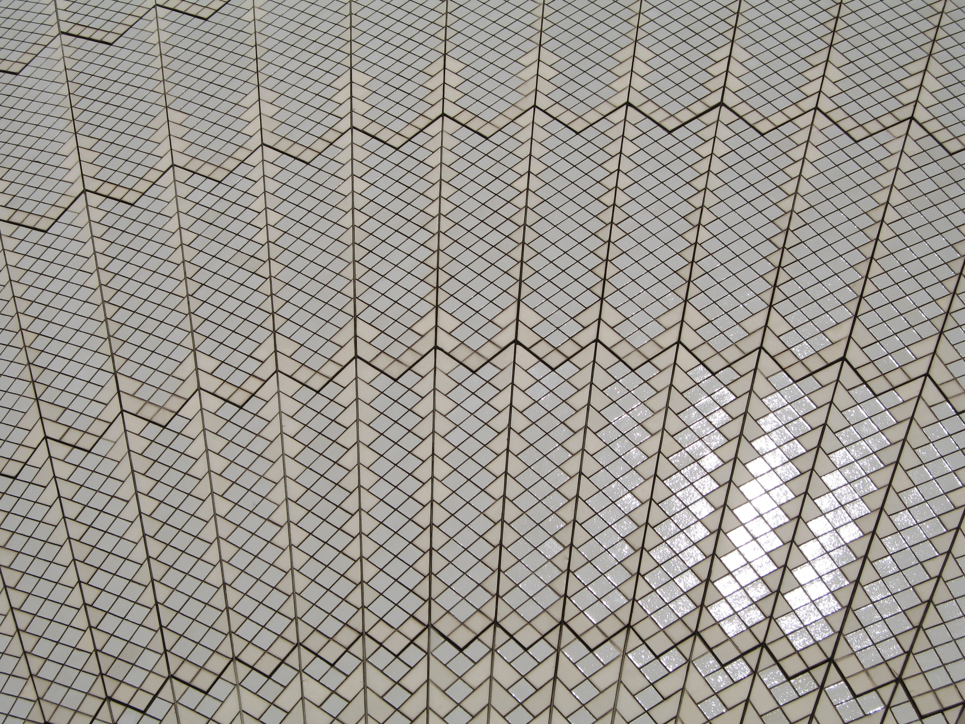 Sydney Opera House tiling, Sydney, Australia.